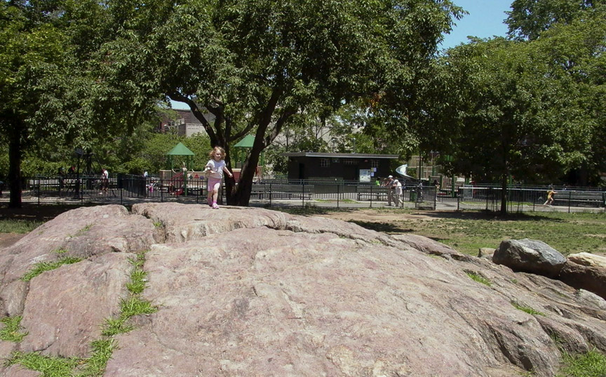 It's all downhill from here. The highest (natural) point on Manhattan is in the middle of Bennett Park.